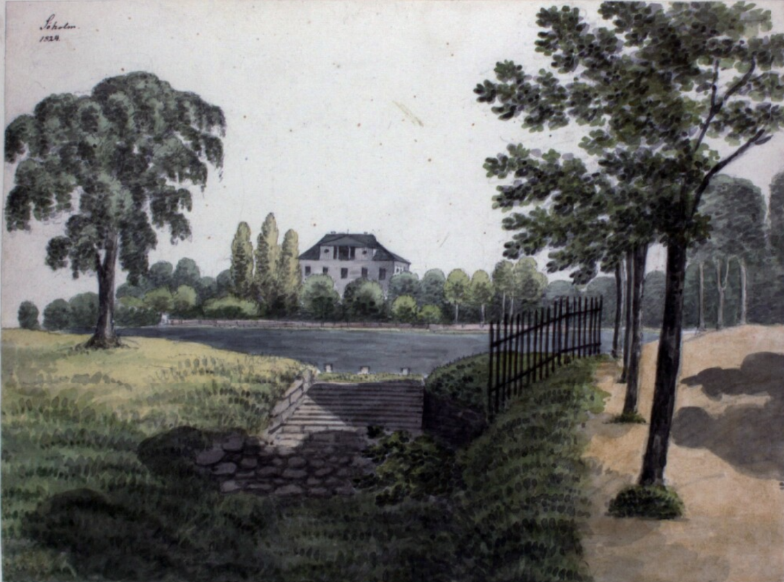 The country house Søholm at Emdrup outside Copenhagen, Denmark